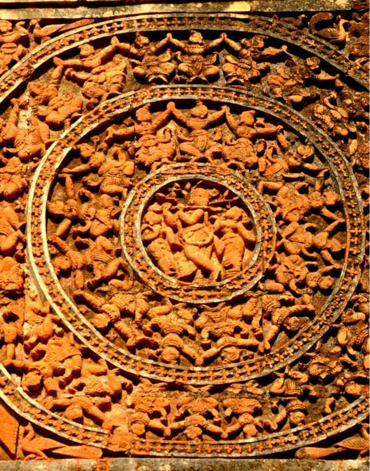 Terracotta plate found in Bishnupur, Bankura, West Bengal, India